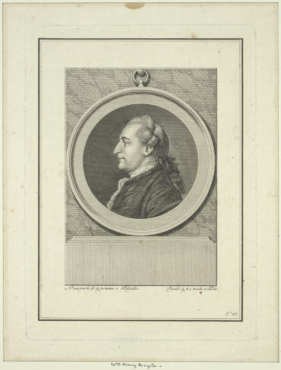 William Henry Drayton (1742-1779). New York Public Library, Emmet Collection of Manuscripts Etc. Relating to American History.